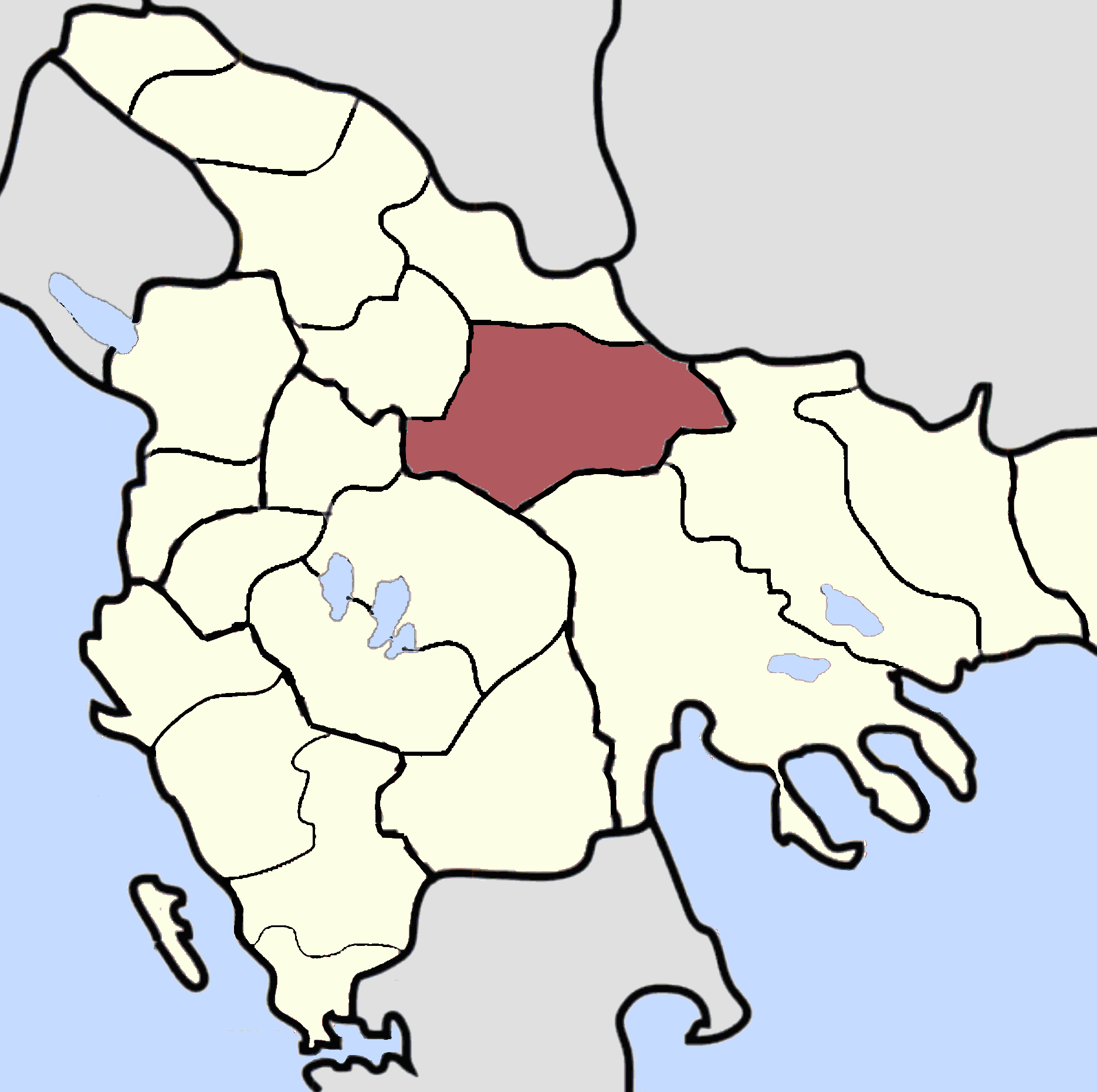 XY Sanjak, Ottoman Empire (late 19th century). Source: The Crescent and the Eagle- Ottoman Rule, Islam and the Albanians, 1874-1913 at Google Books By George Gawrych